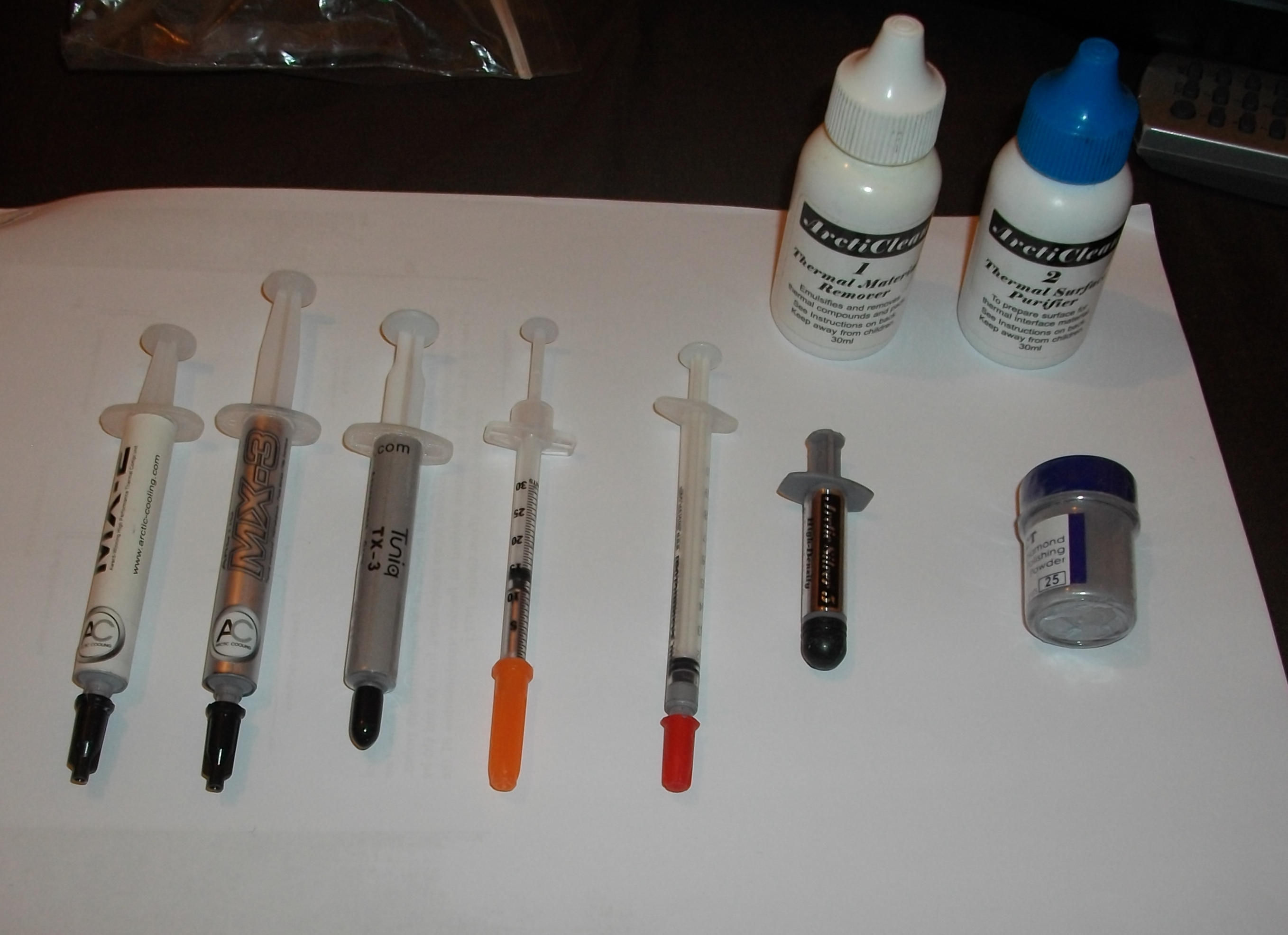 Thermal Greases: Arctic Cooling MX-2/3, Arctic Silver 5, Shin-Etsu, Tuniq TX-3, Liquid Metal Pro, Diamond Powder for DIY grease. Arctic Silver's cleaning fluids for grease removal.